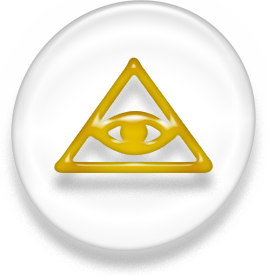 Symbol of Caodaism, white and golden version.